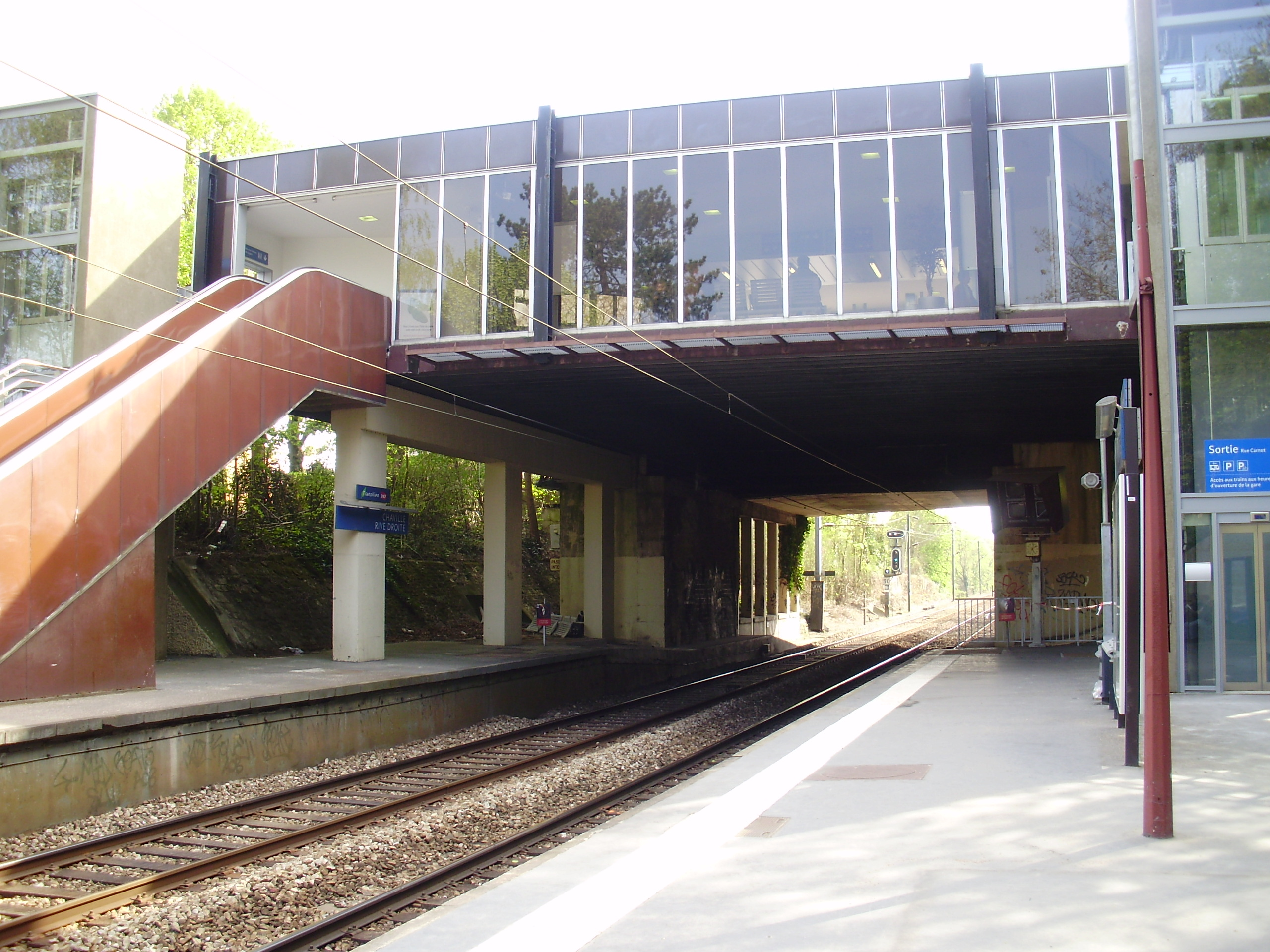 Building of the Chaville - Rive Droite station, in Chaville, Hauts-de-Seine, France